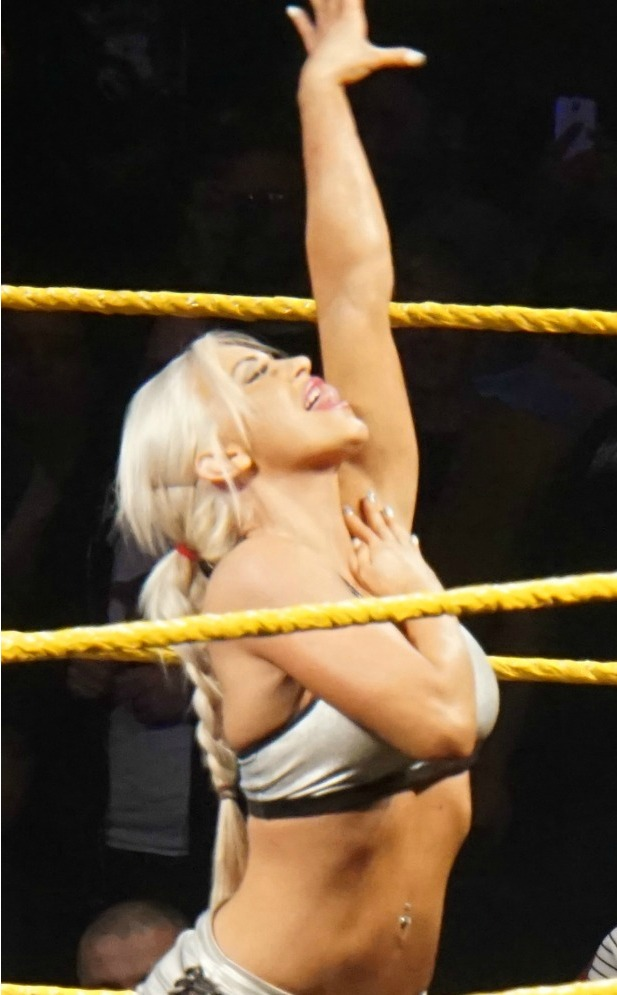 Dana Brooke performing her signature pose during an NXT Live event in March 2015. (2)